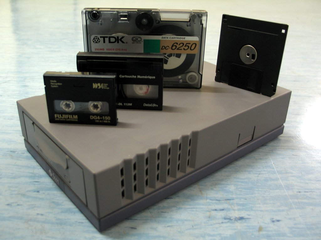 DDS tape drive and four examples of magnetic data storage media (shown on top of tape drive). From left to right: 150m DDS-4 tape (4 mm wide, 492 feet long, 20 GB capacity), 112m Data8 tape (8 mm, 367 ft., 5 GB), 310m QIC DC tape (~6 mm, 1020 ft., 250 MB), and 3.5" floppy disk (1.44 MB)